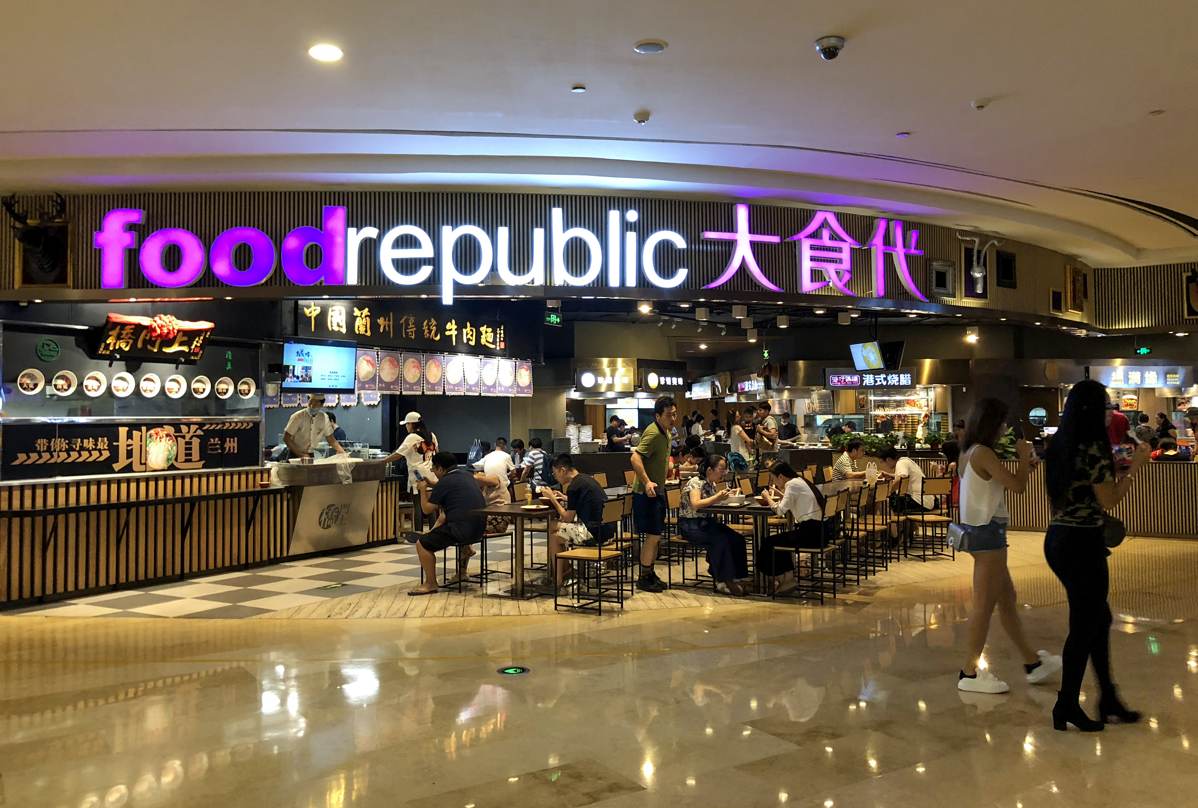 A food court right on 3F.